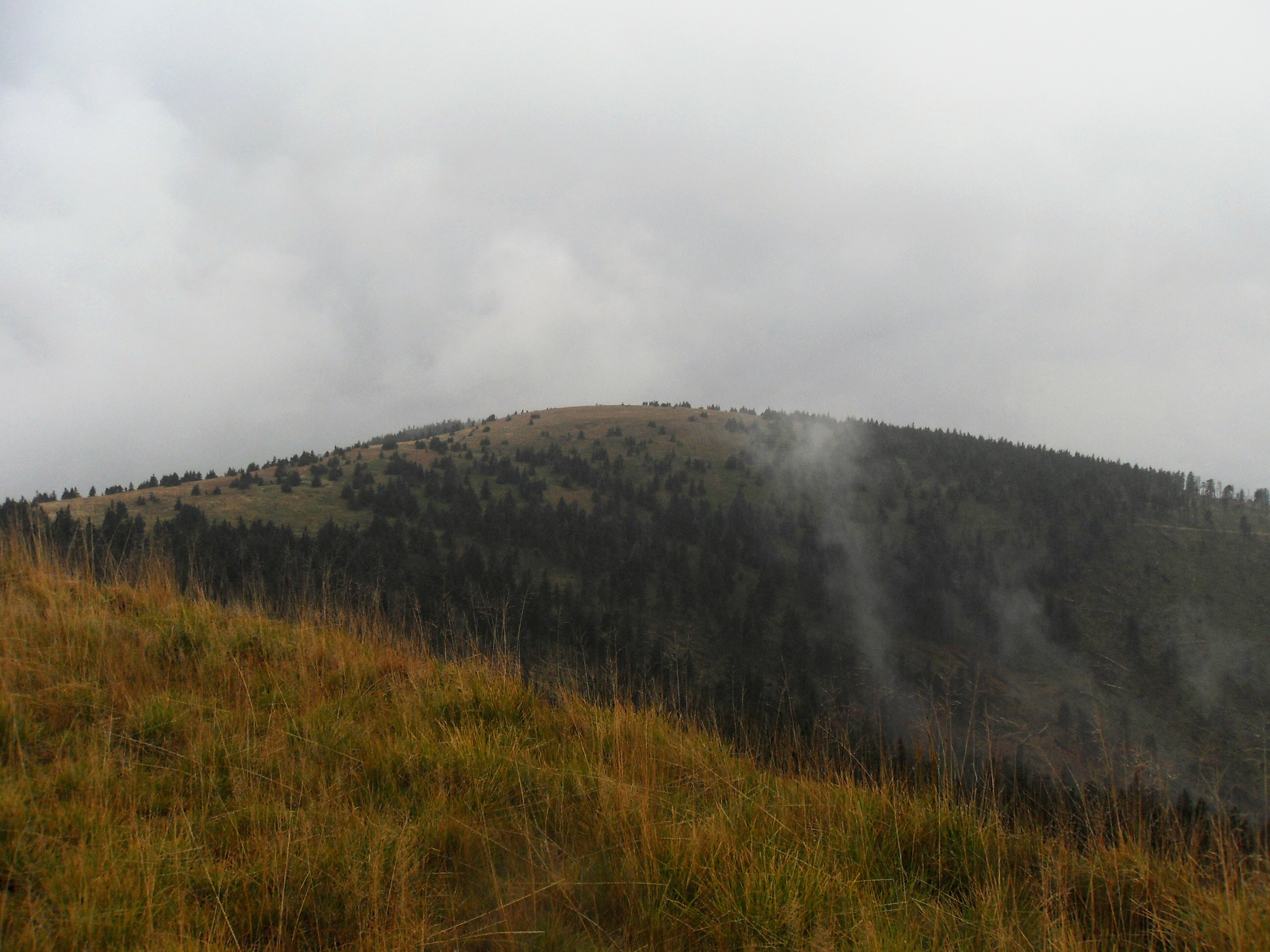 Mravenečník (1342 m), Rejhotice, Loučná nad Desnou, Šumperk district, Czech Republic